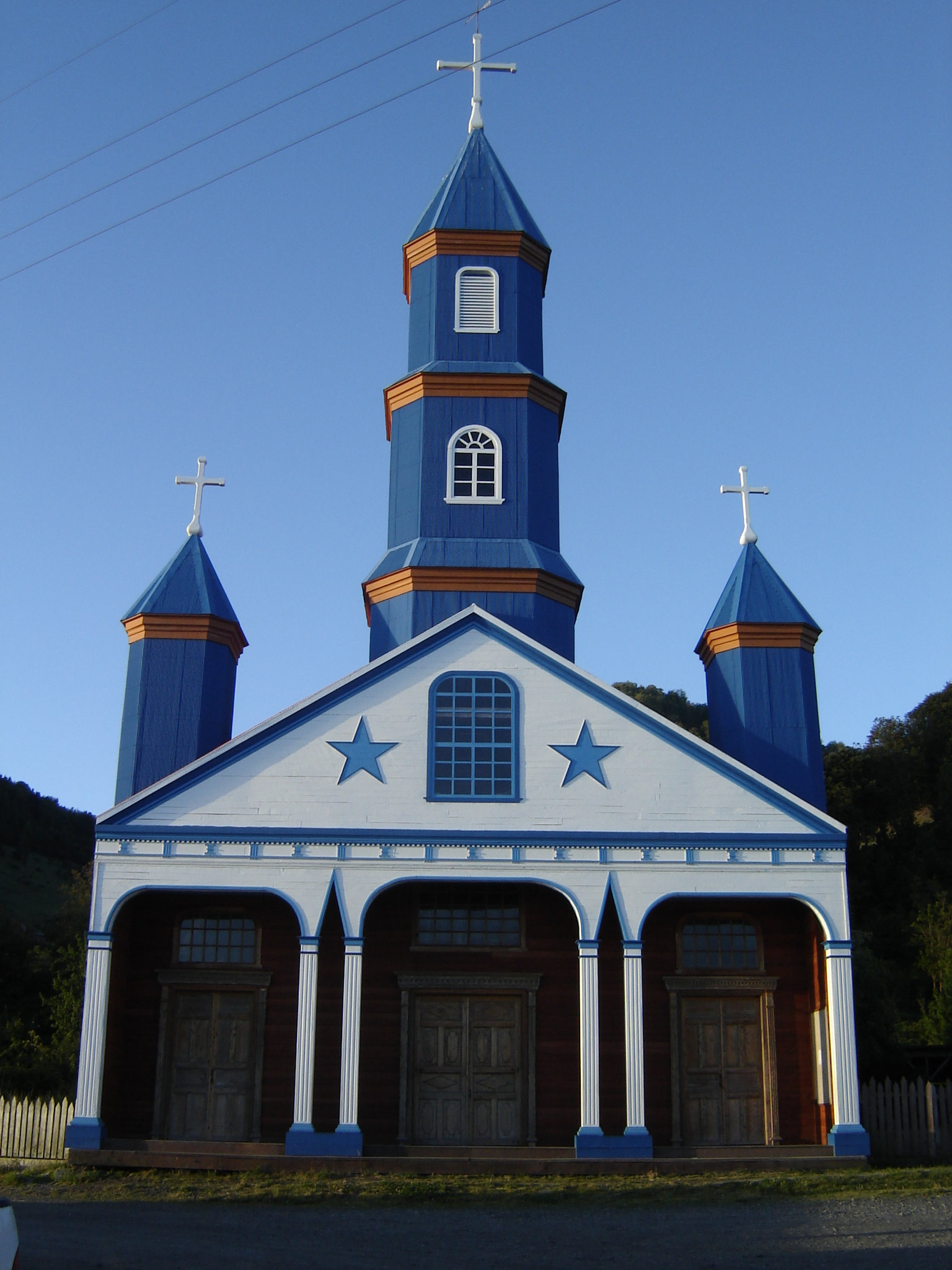 This is a photo of a national monument in Chile: 706